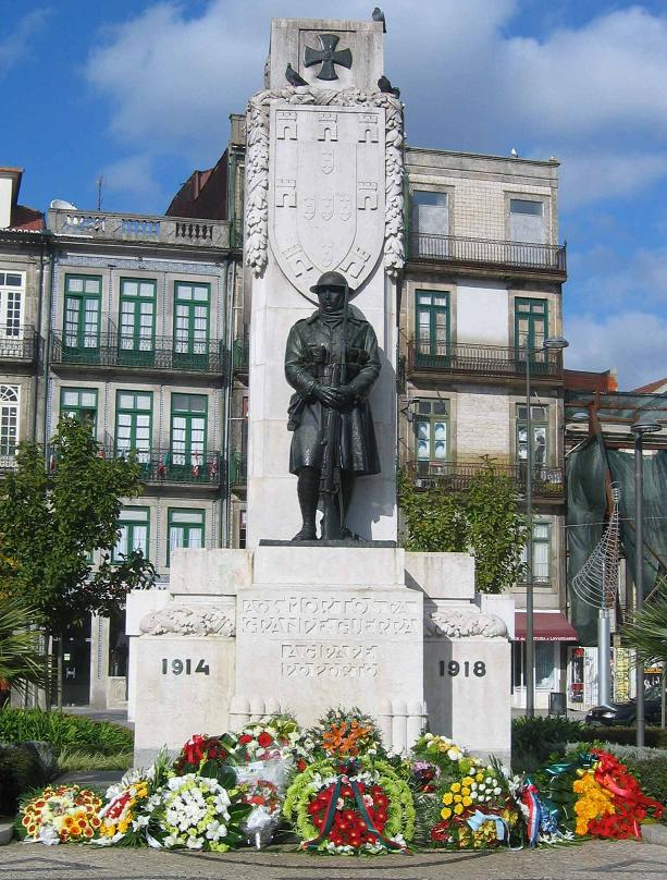 Henrique Moreira - Monument to the soldiers killed in I World War